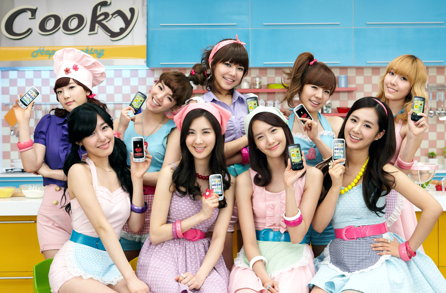 SNSD Cooky Phone : LGEPR released This image under the CC-BY license, LGEPR also provide other available licence images in wikimedia commons(see also LG electronics blog